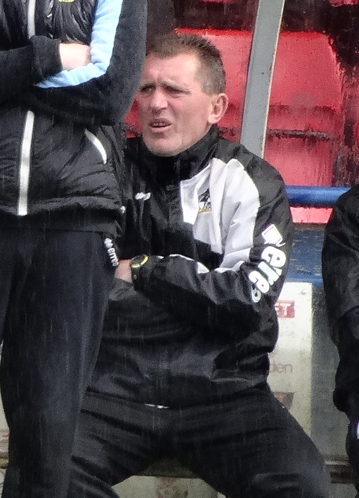 Stuart Naylor during Bristol Rovers' match against York City at Bootham Crescent, York on 30 April 2016